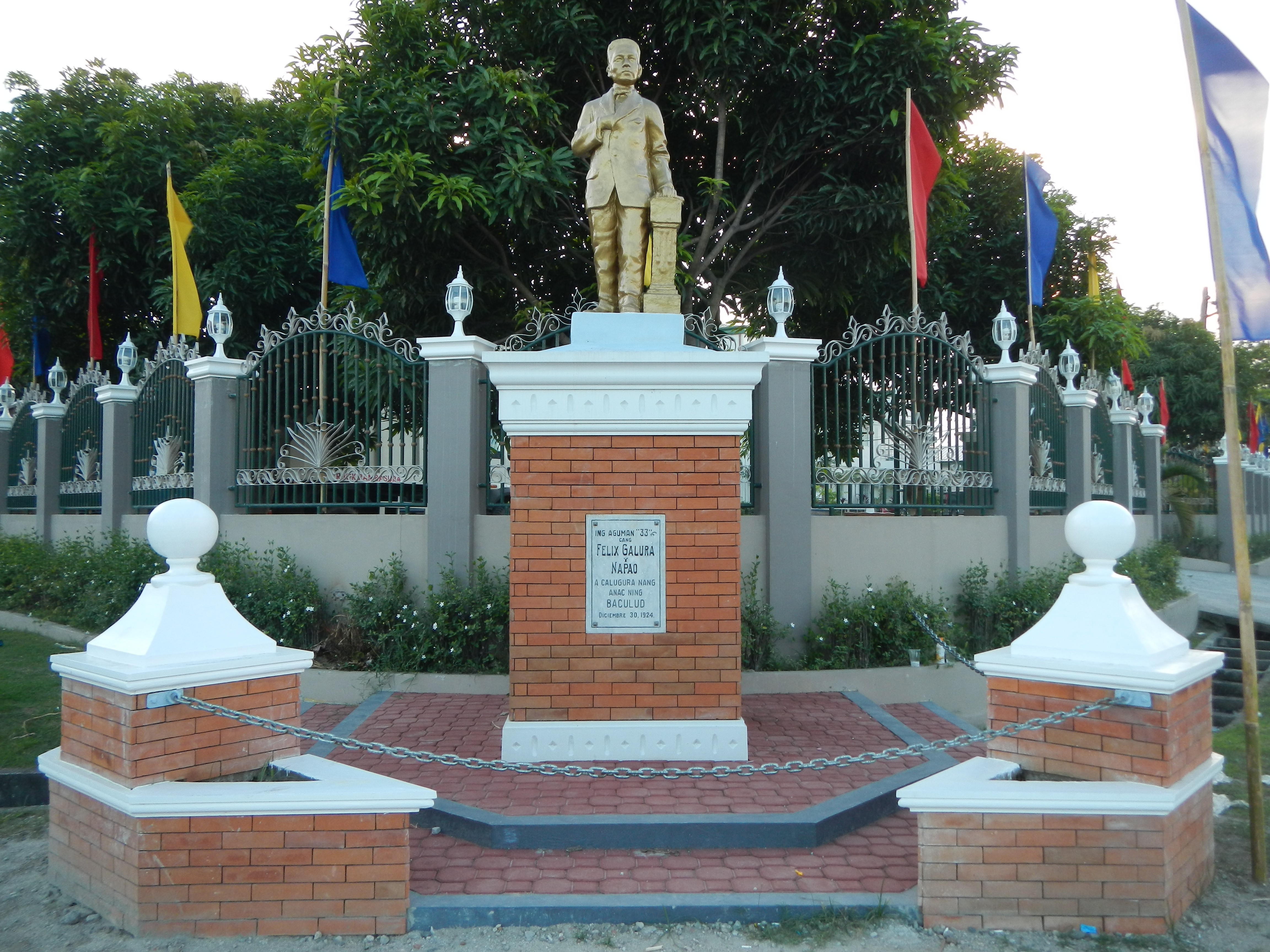 Felix Galura Y Napao [1] (December 30, 1924) Felix Napao Galura (b. February 21,1866-d. July 21,1919) was a Pampango writer and revolutionary leader. He was one of the first members of the Katipunan in his province. He was known in his province as the "Father of Pampango Grammar".[2] Commissioned a first lieutenant, Pedro Tongio Liongson together with Felix Galura joined the Voluntarios Locales.[8] The Battle of Manila Bay on May 1, 1898 witnessed the destruction of the Spanish fleet by the United States naval forces headed by Admiral George Dewey and signaled the return of General Emilio Aguinaldo from his exile in Hongkong on May 19. Four days later, a battalion of Pampango volunteers sent to confront Aguinaldo abandoned their post and crossed over to join him.